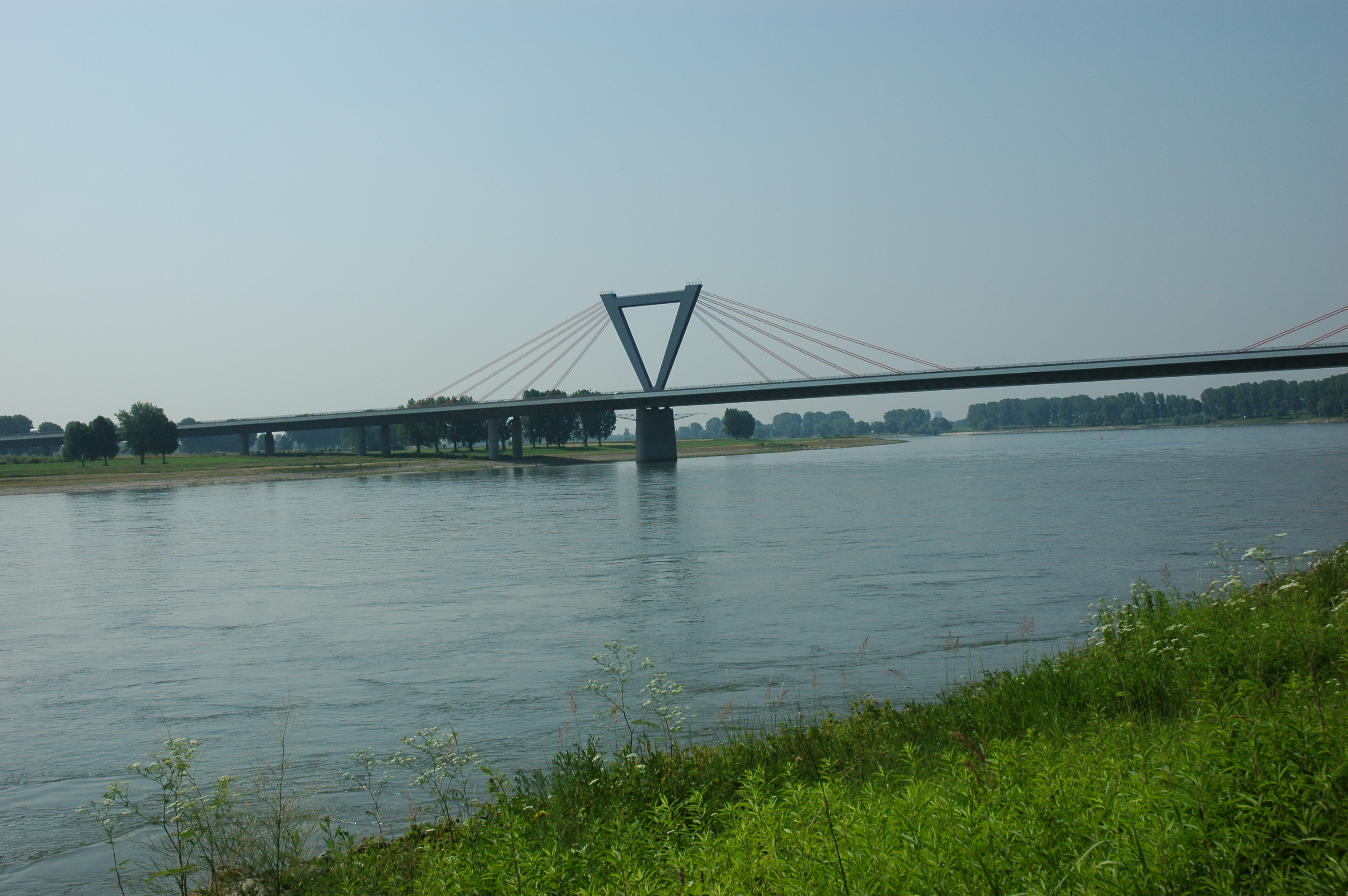 Flughafenbruecke (airport bridge) over the river Rhine between Meerbusch and Duesseldorf. Only one of two pylons visible.